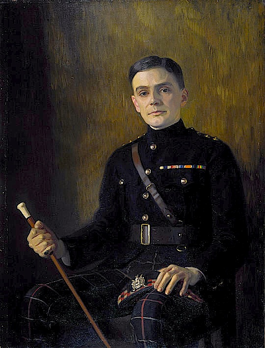 Portrait of Charles Kenneth Scott-Moncrieff (1889–1930), translator of Proust, in the uniform of a First World War officer in the King's Own Scottish Borderers